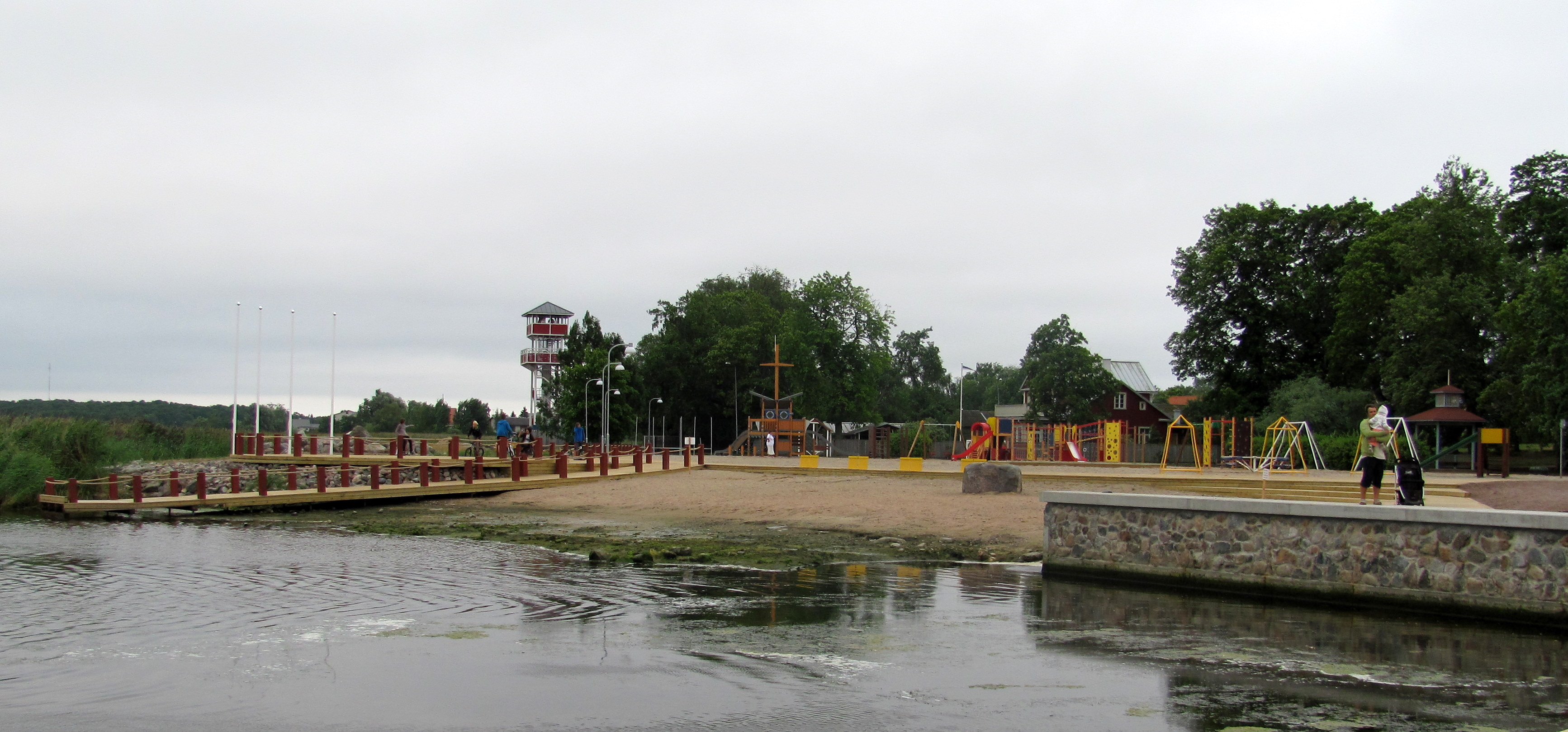 Aafrika rand (African beach) in Haapsalu, Estonia.